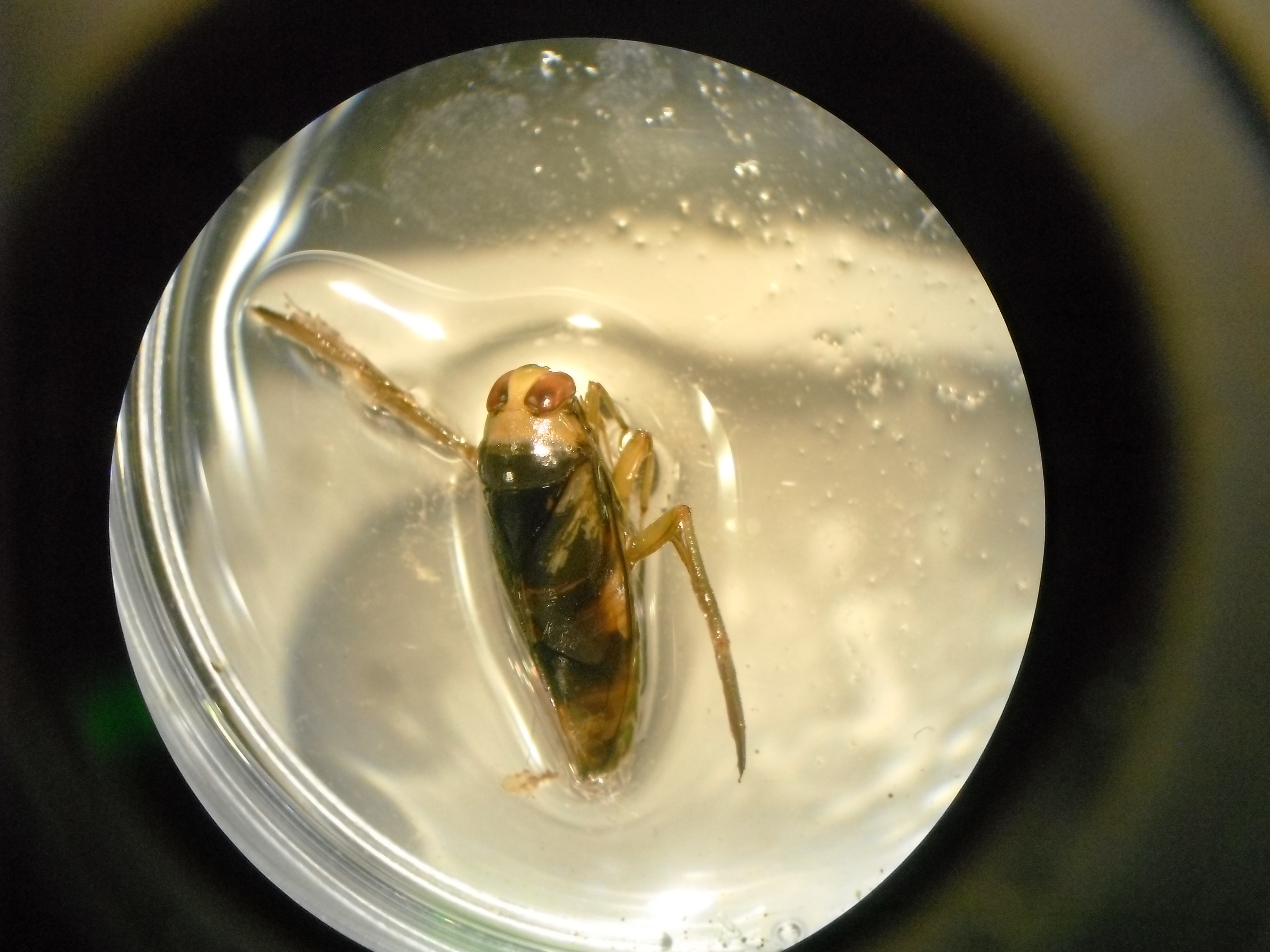 The above is an image of a species of back swimmer under a microscope.